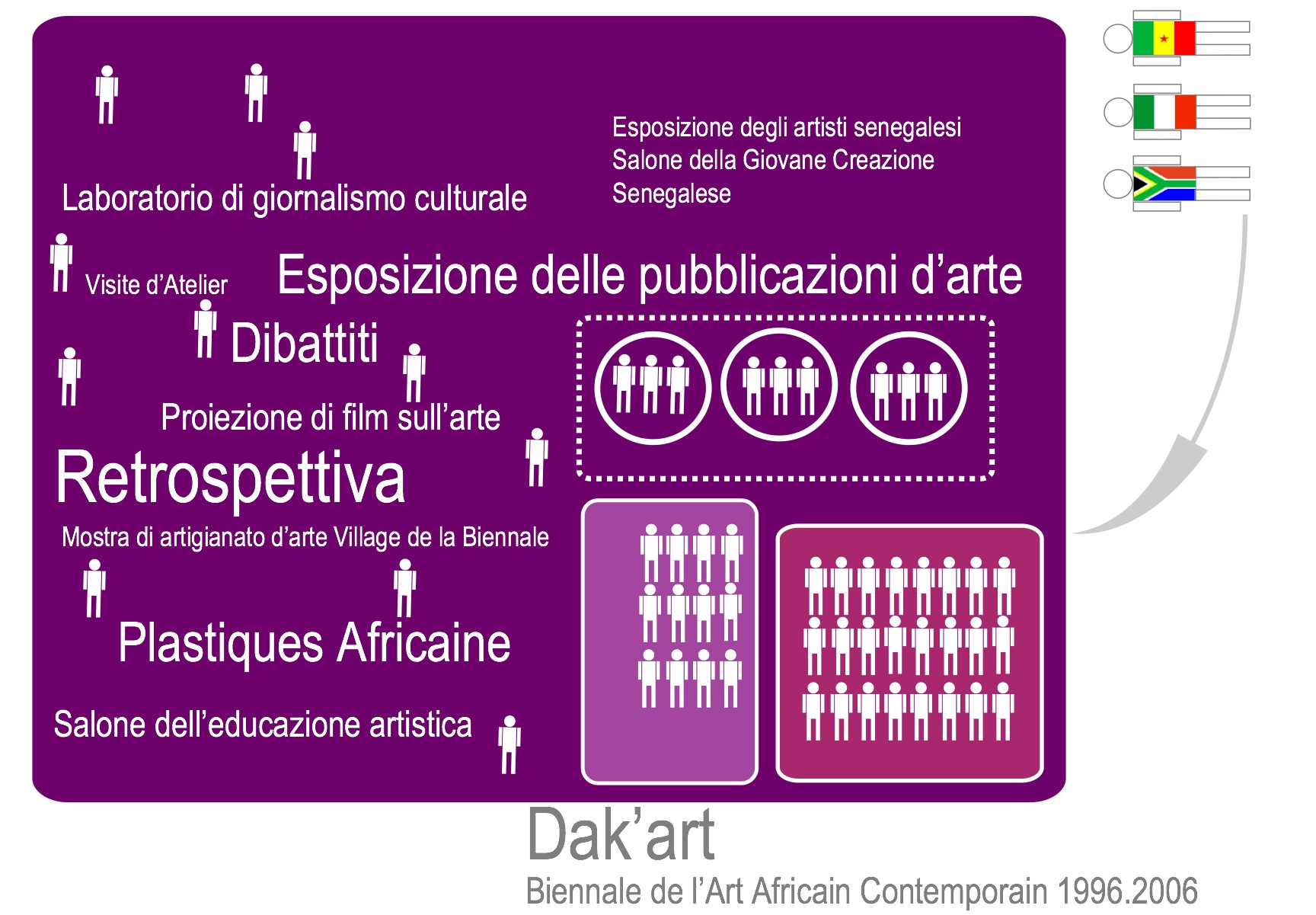 Map of the exhibitions of the Dakar Biennial 1996-2006. Iolanda Pensa and graphic design by Federica Verona, 2006.